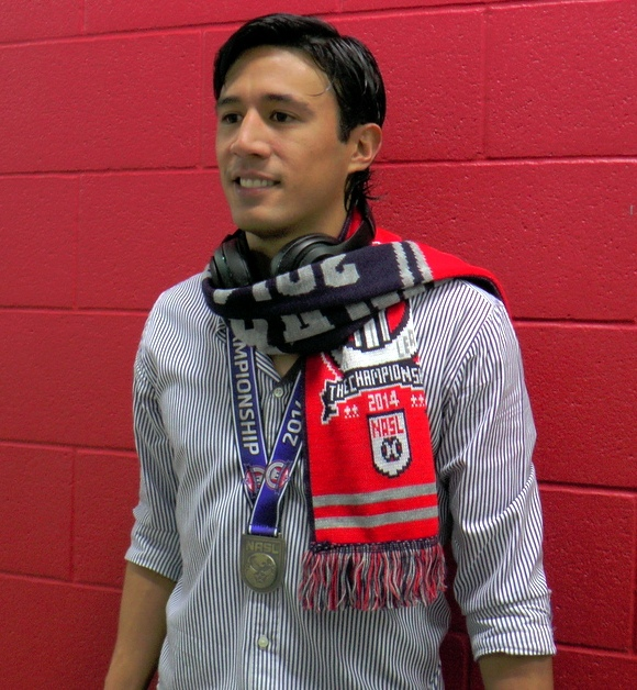 Midfielder Wálter Restrepo #7 poses for a photo after winning the 2014 NASL Championship with San Antonio Scorpions.